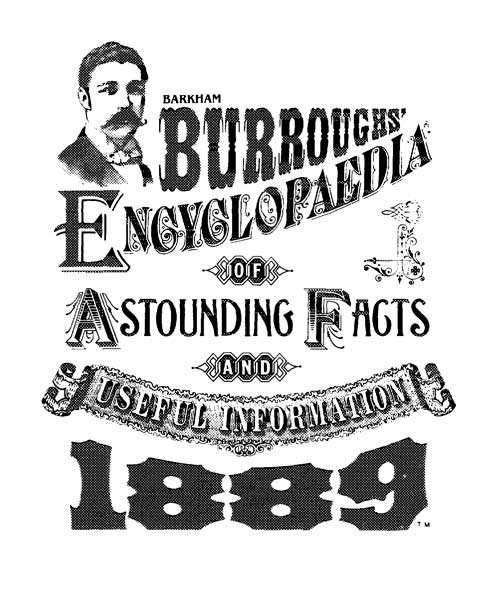 Cover of the 1889 work Barkham Burrroughs' Encyclopaedia of Astounding Facts and Useful Information. I removed the white background with an image editor.